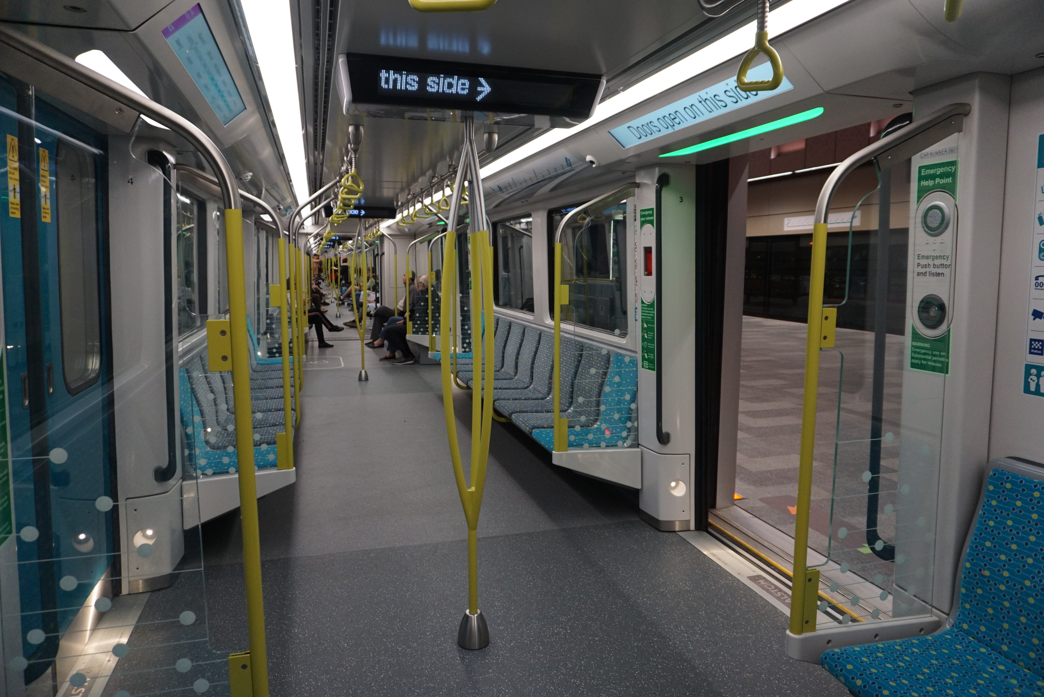 Sydney Metro